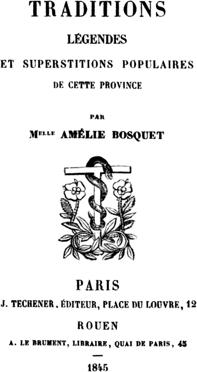 Front page of La Normandie romanesque et merveilleuse. Traditions légendes et superstitions populaires de cette province by Amélie Bosquet.